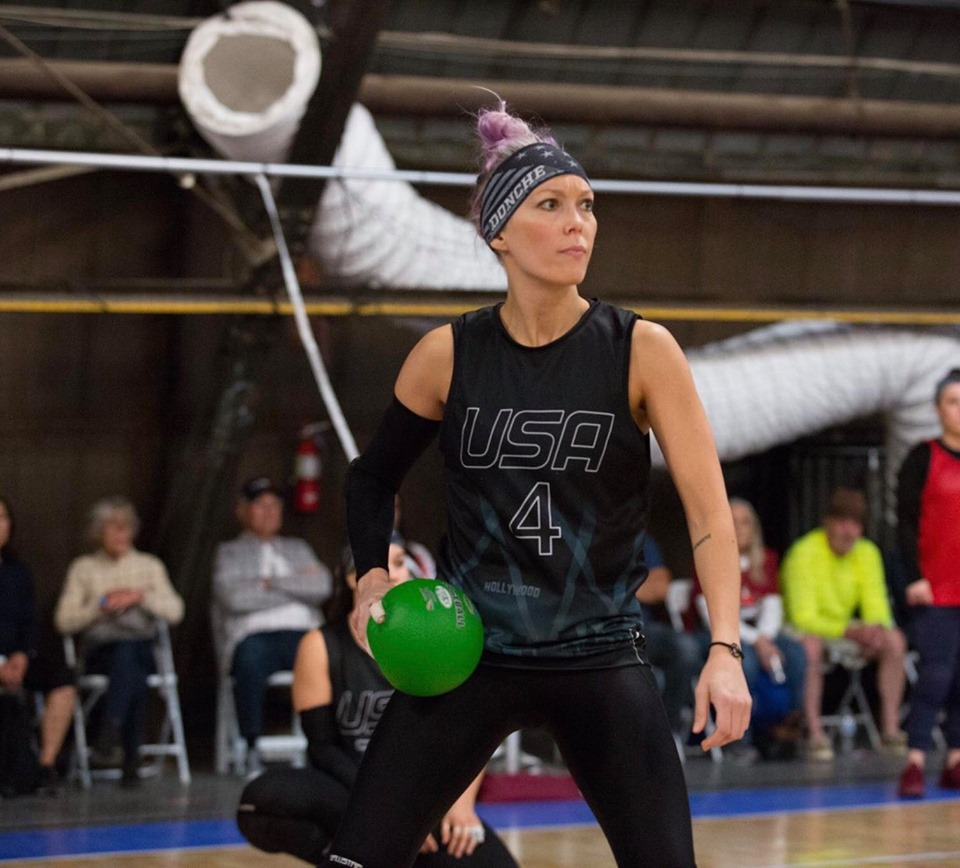 Team USA Dodgeball player, playing in the WDBF Dodgeball World Championships in Los Angeles in October 2018 hosted by USA Dodgeball